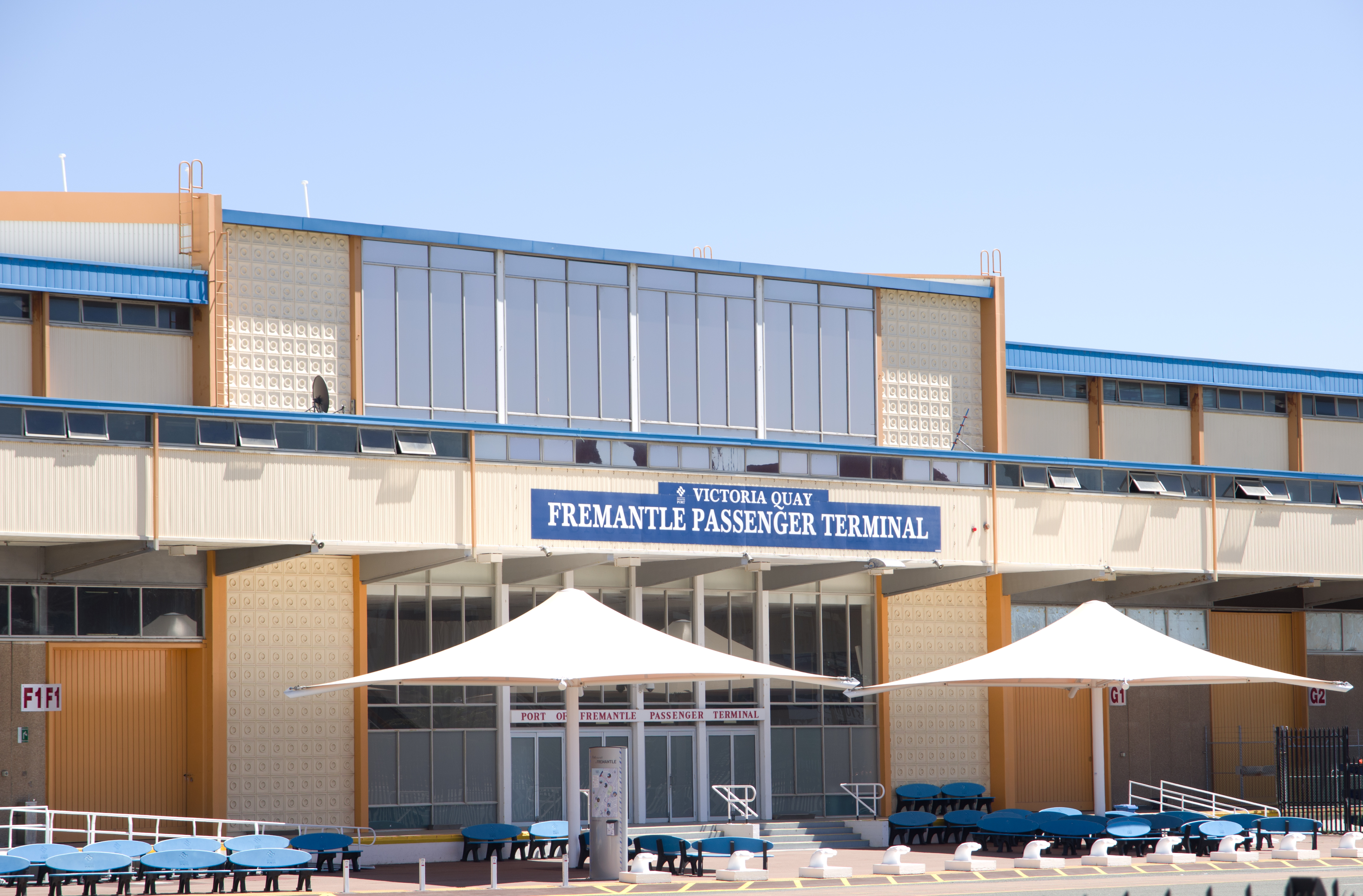 Victoria Quay Object location32° 02′ 51.35″ S, 115° 44′ 52.62″ E Fremantle Passenger Terminal